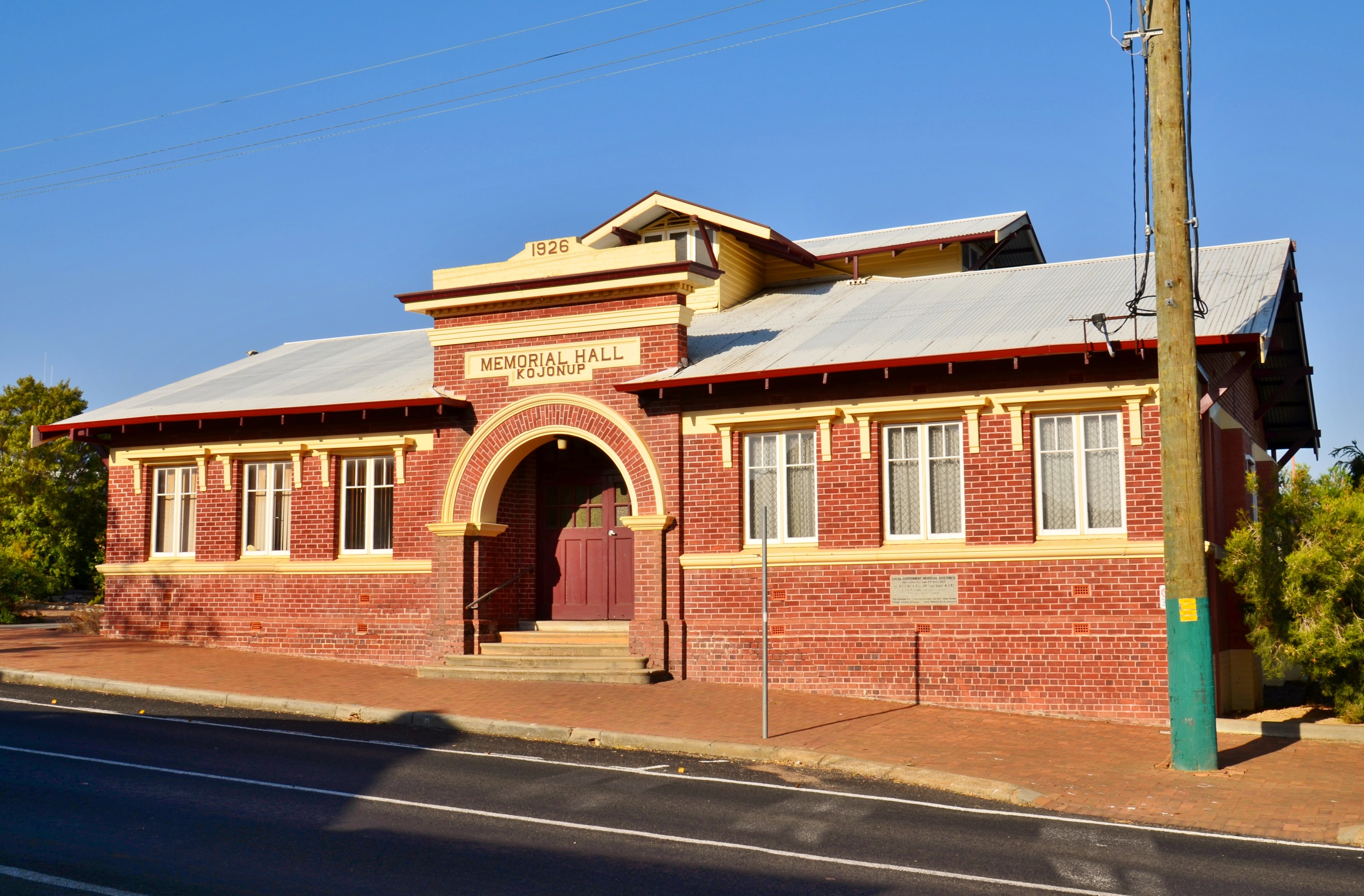 View of the Kojonup Memorial Hall, Albany Highway, Kojonup, Western Australia